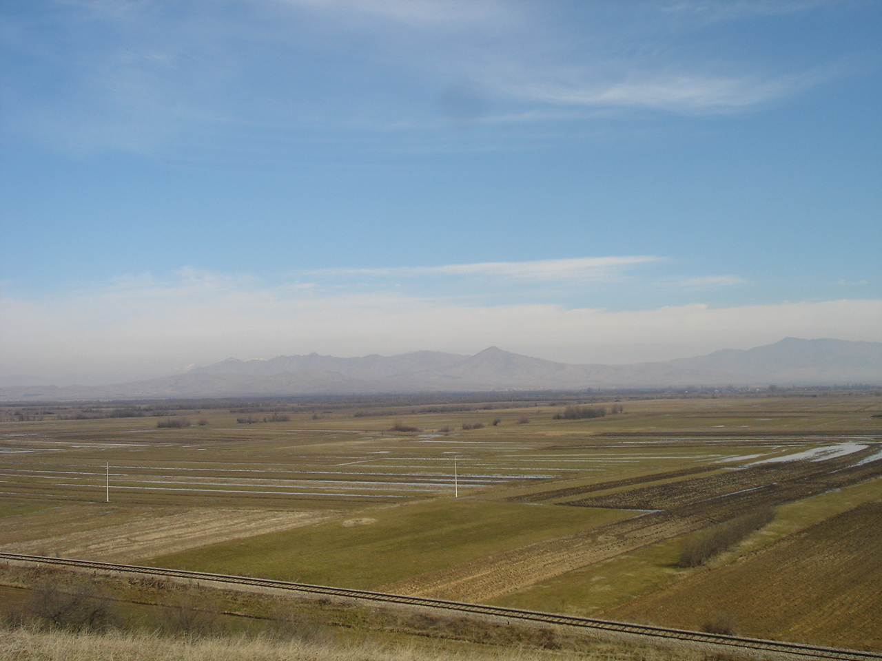 Plain of Pelagonia in Mogila Municipality, Macedonia